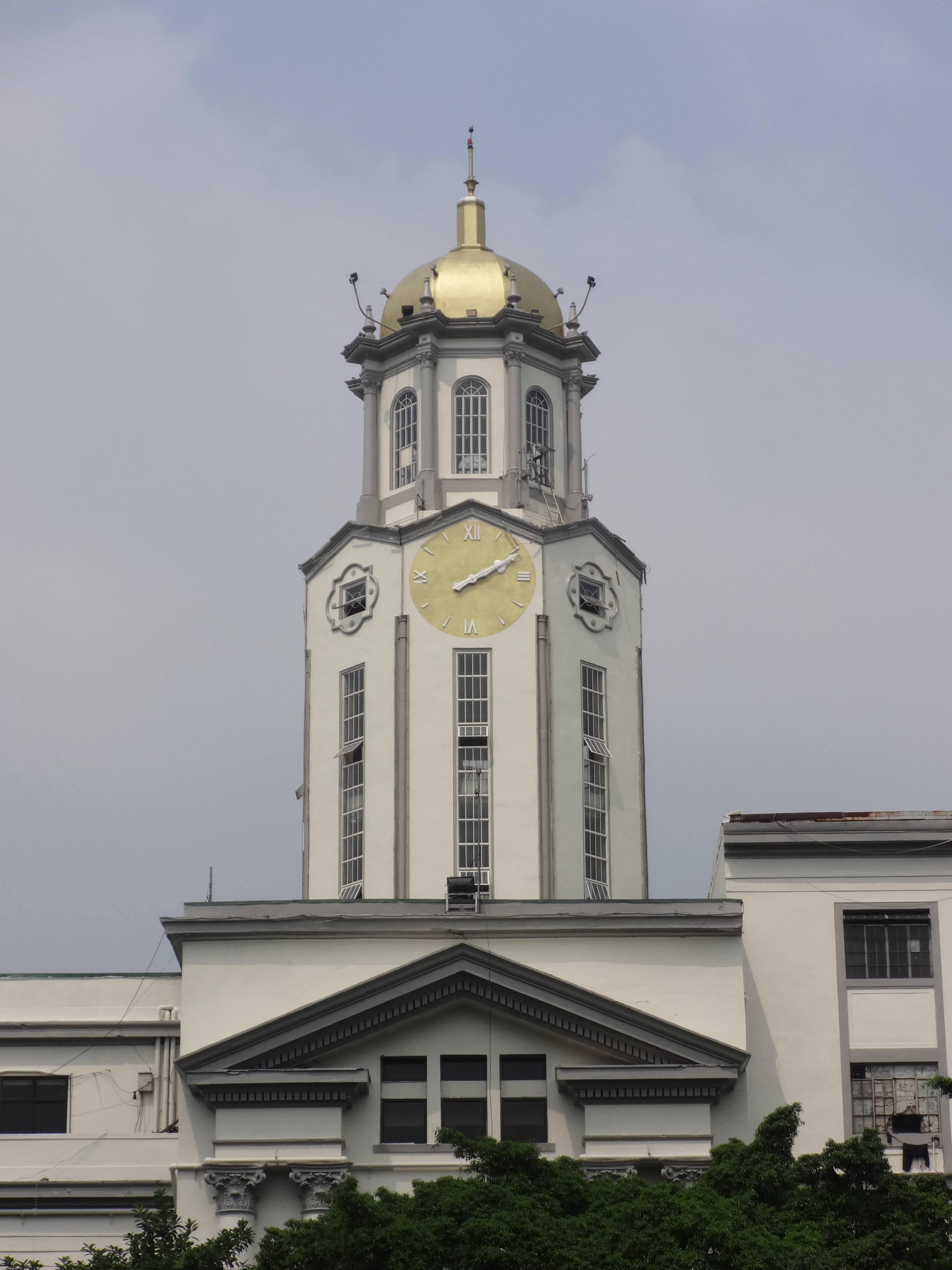 Clock tower of the newly-repainted Manila City Hall